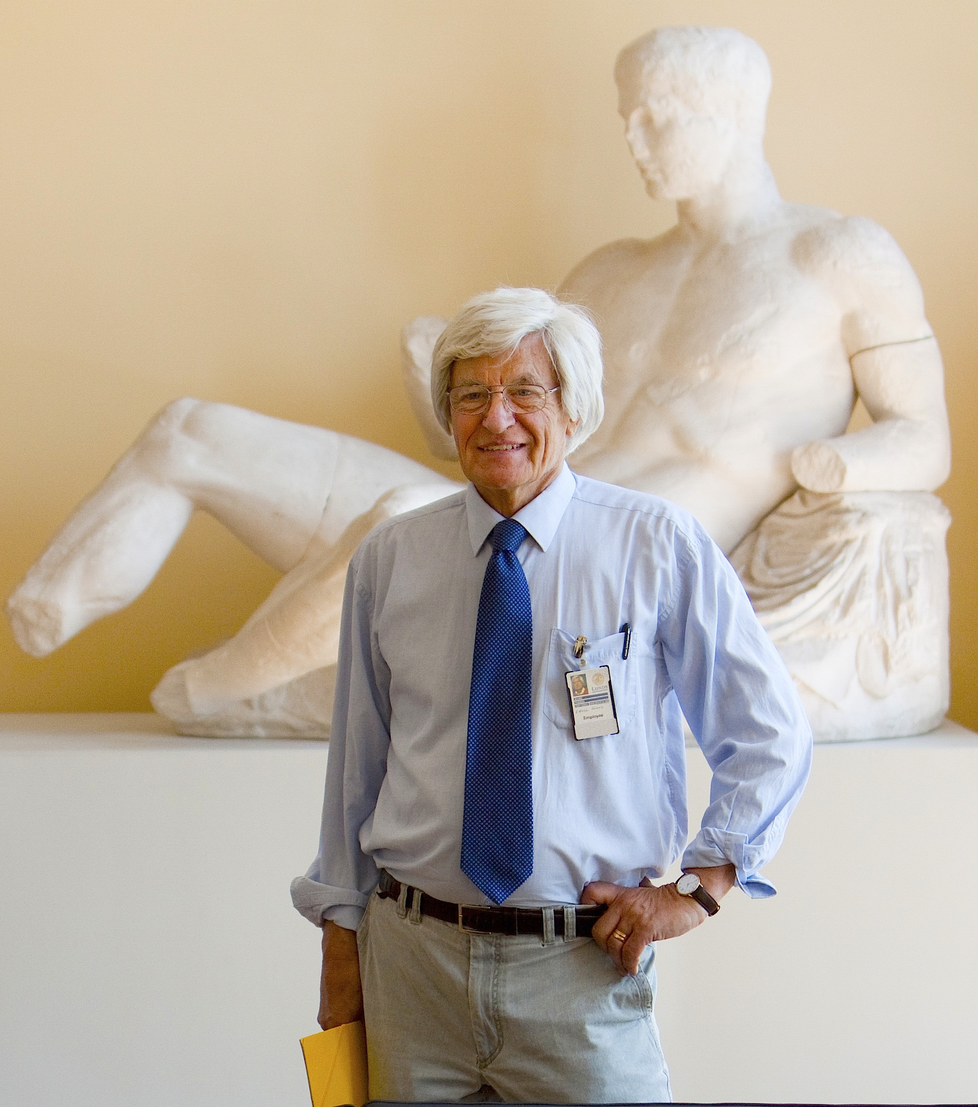 The Swedish Chemistry Professor Sture Forsén photographed in front of a statue of Dionysos at the inaguration of the Pufendorf Institute at the University of Lund.